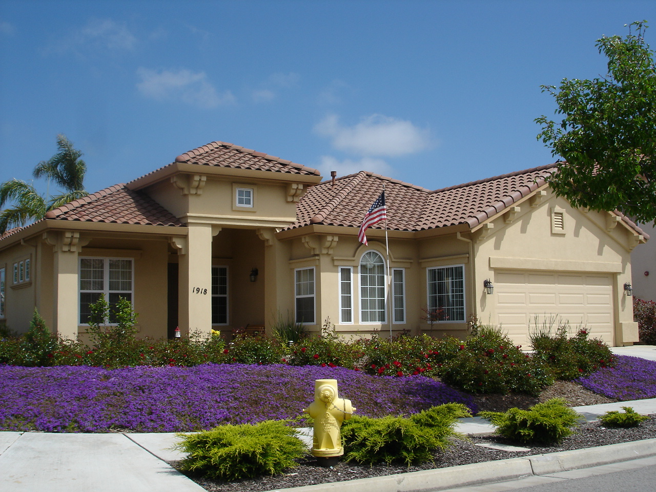 Ranch style home in North Salinas, California